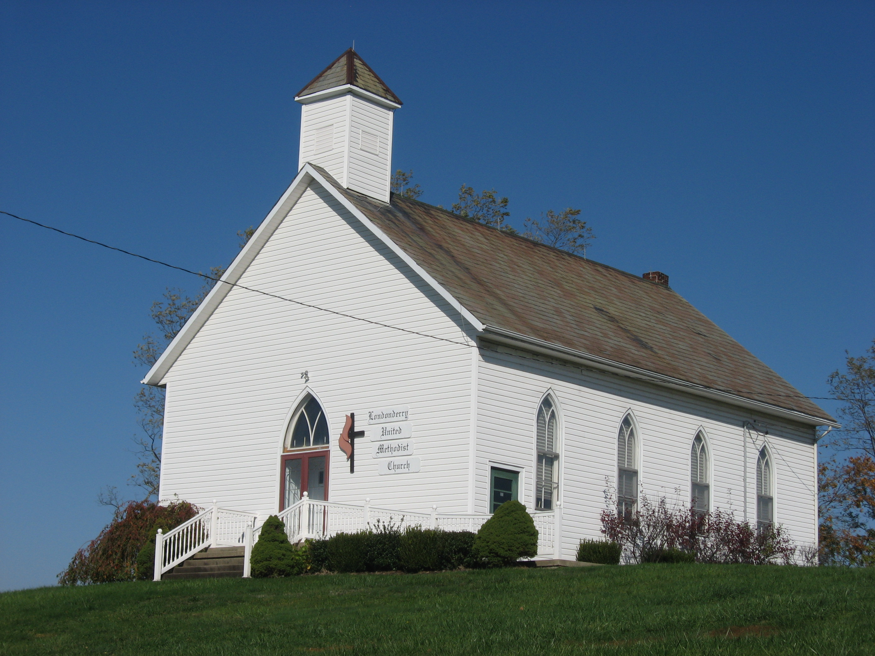 Front and eastern side of the Londonderry United Methodist Church, located at 23081 U.S. Route 22 in Londonderry, Ohio, United States.